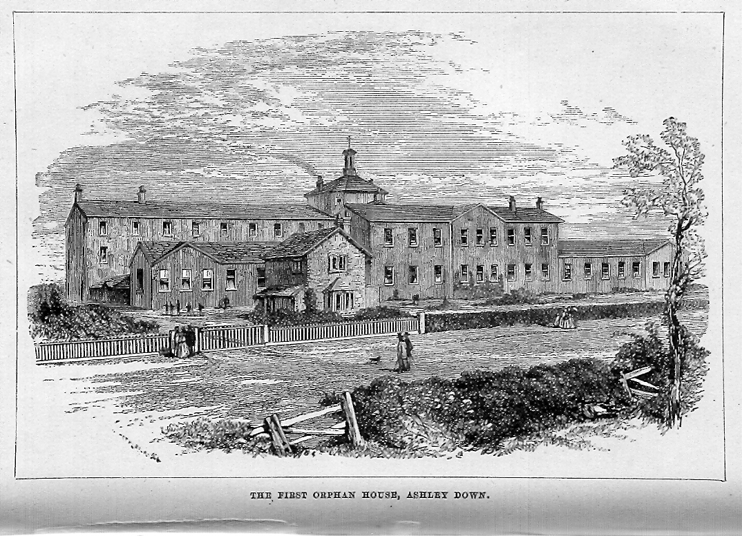 line drawing of No 1 New Orphan House